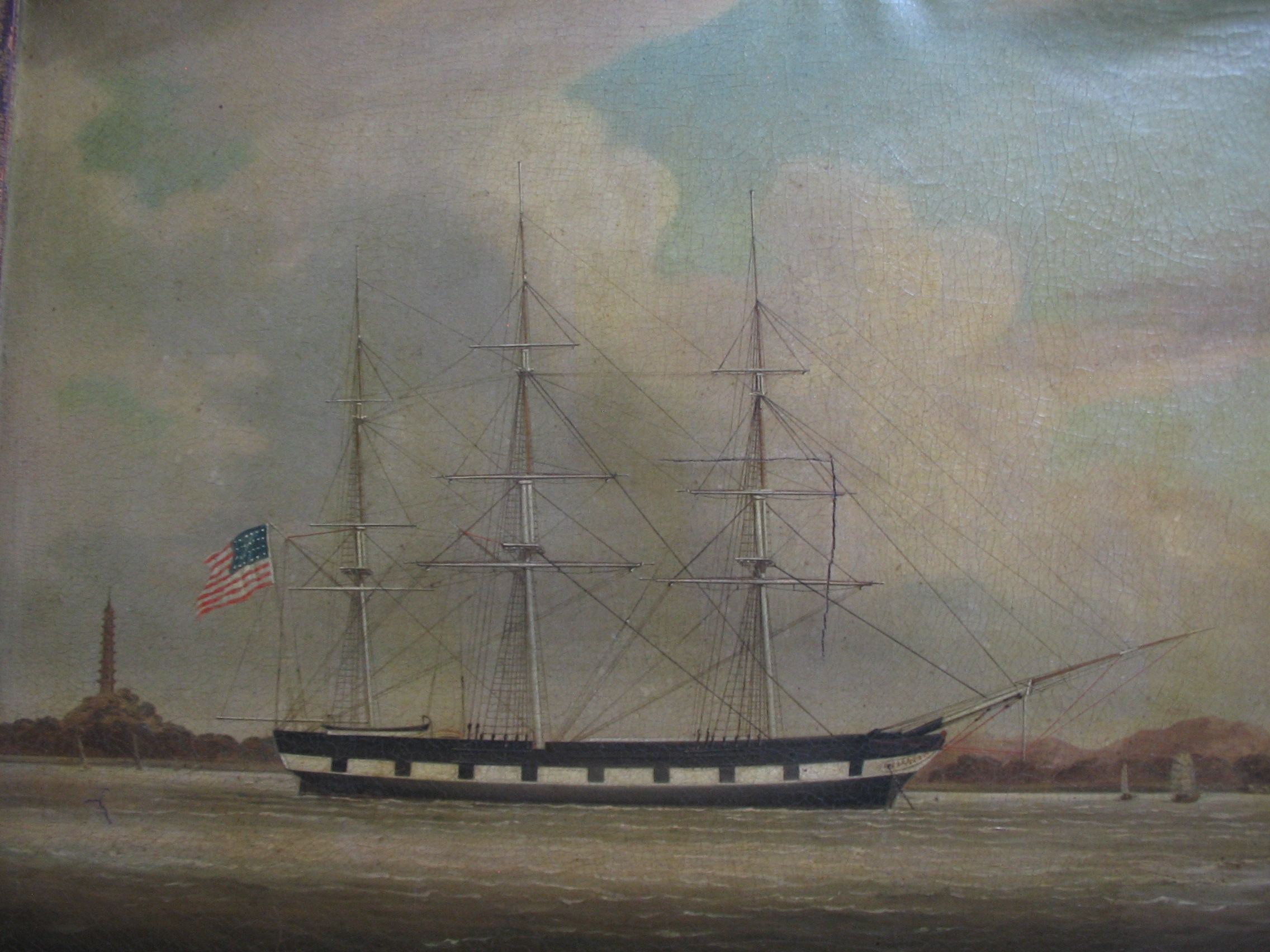 Oil painting. China trade painting. Ship's portrait of whaleship Niantic made in a Chinese port, probably Whampoa (now the Huangpu District), Canton (Guangzhou). Painted between 1832 and 1847 (most likely in 1840, during a particularly profitable voyage). The original hung in the captain's cabin until the Niantic was converted in 1849 to a hotel in San Francisco. At that time, it was transferred to the whaleship Mary Wilder, and subsequently remained in the captain's family to the present time. The remains of the Connecticut-built Niantic lie under the Mark Twain Plaza Complex next to the Transamerica Building in San Francisco, and artifacts of the ship are in the San Francisco Maritime Museum.